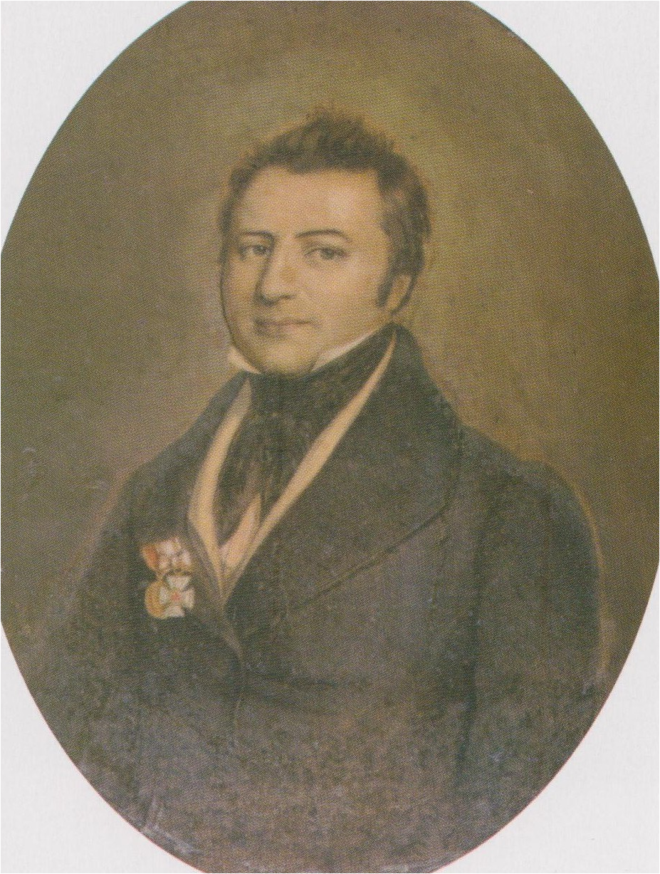 Rudolph Brandes (1795-1842), pharmacist and naturalist; portrait ~ 1835